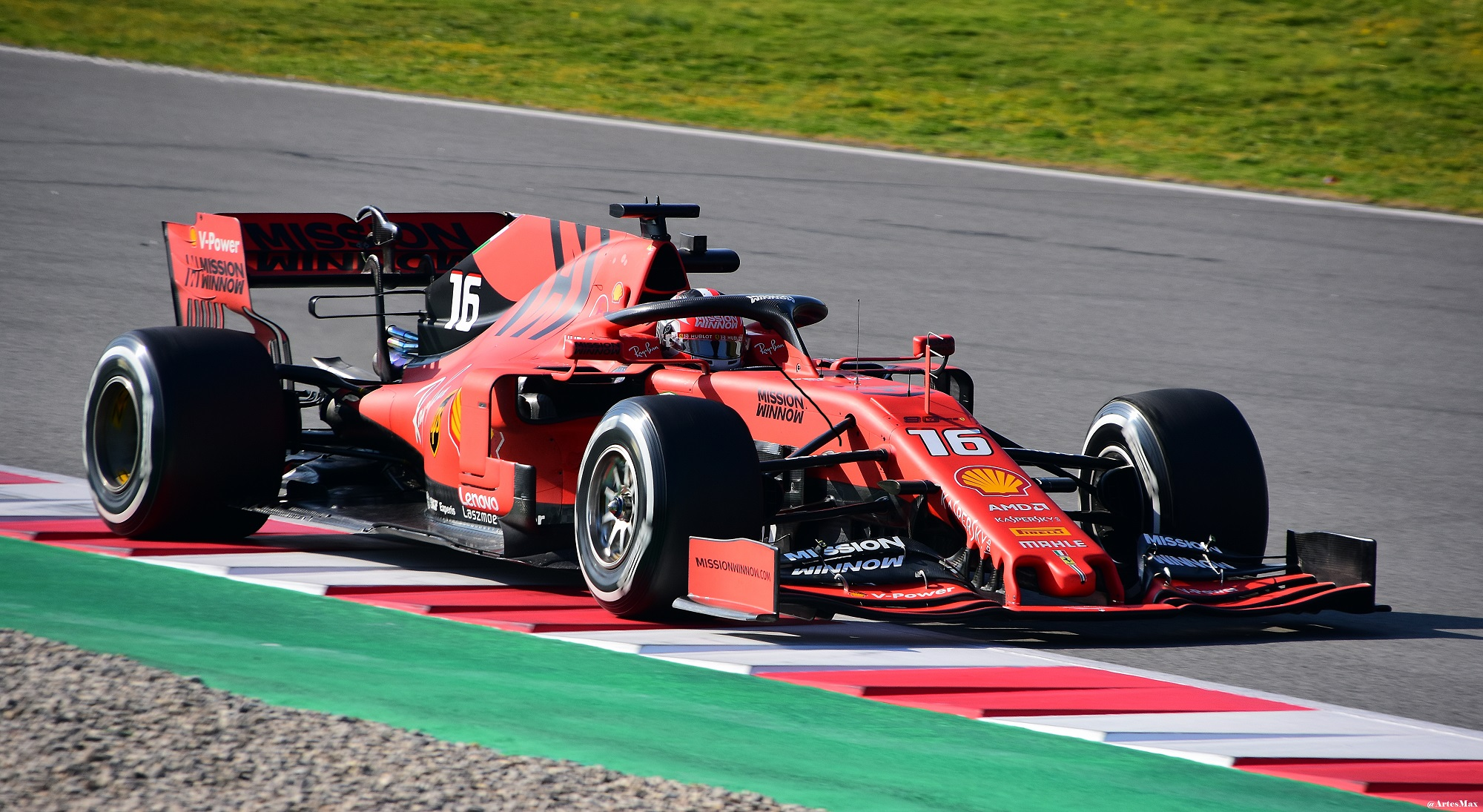 2019 Formula One Test Days / Circuit de Barcelona / Ferrari SF90 / Charles Leclerc / Scuderia Ferrari Mission Winnow